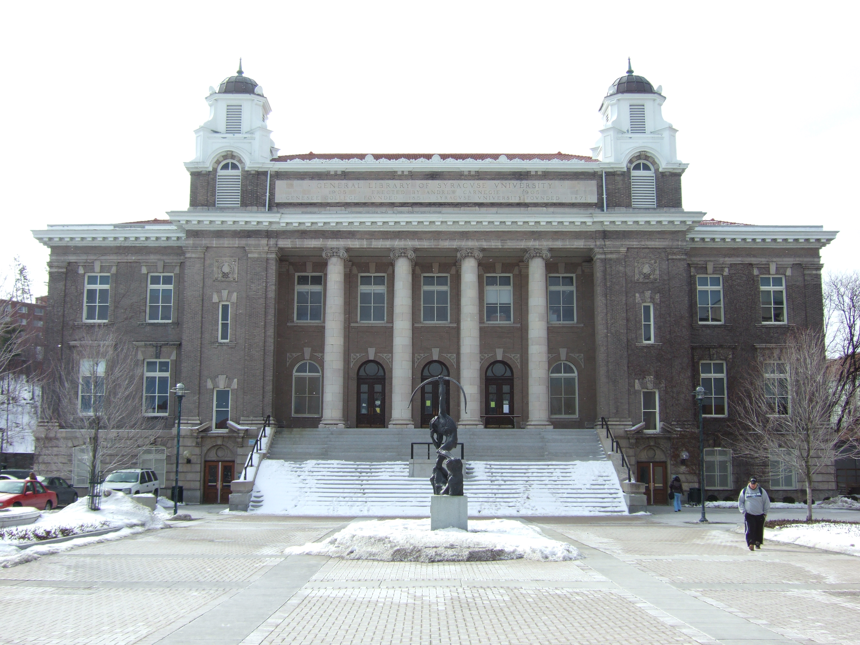 03/07/06 taken by Kisstory.